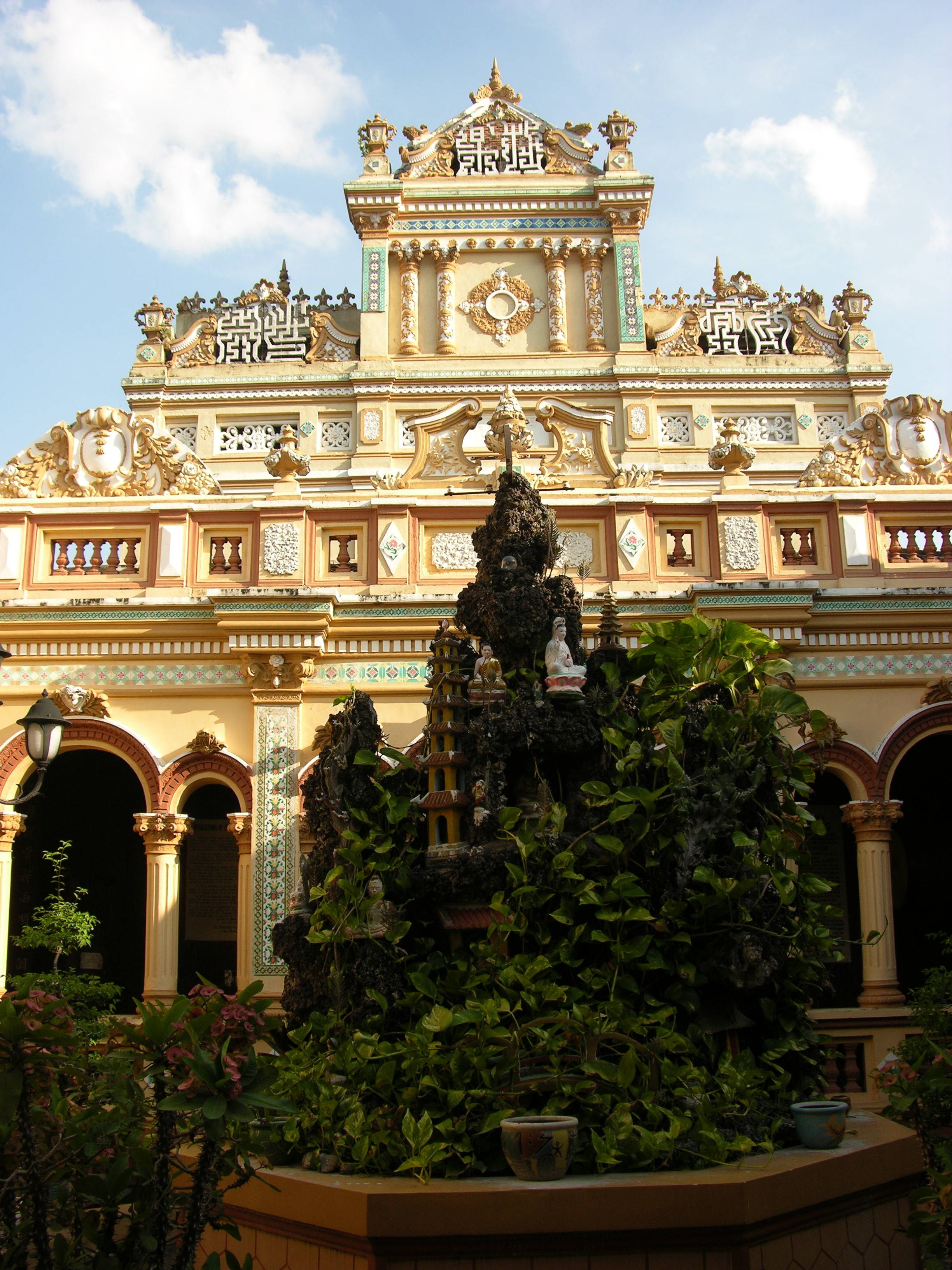 Vinh Trang Pagoda, from back view